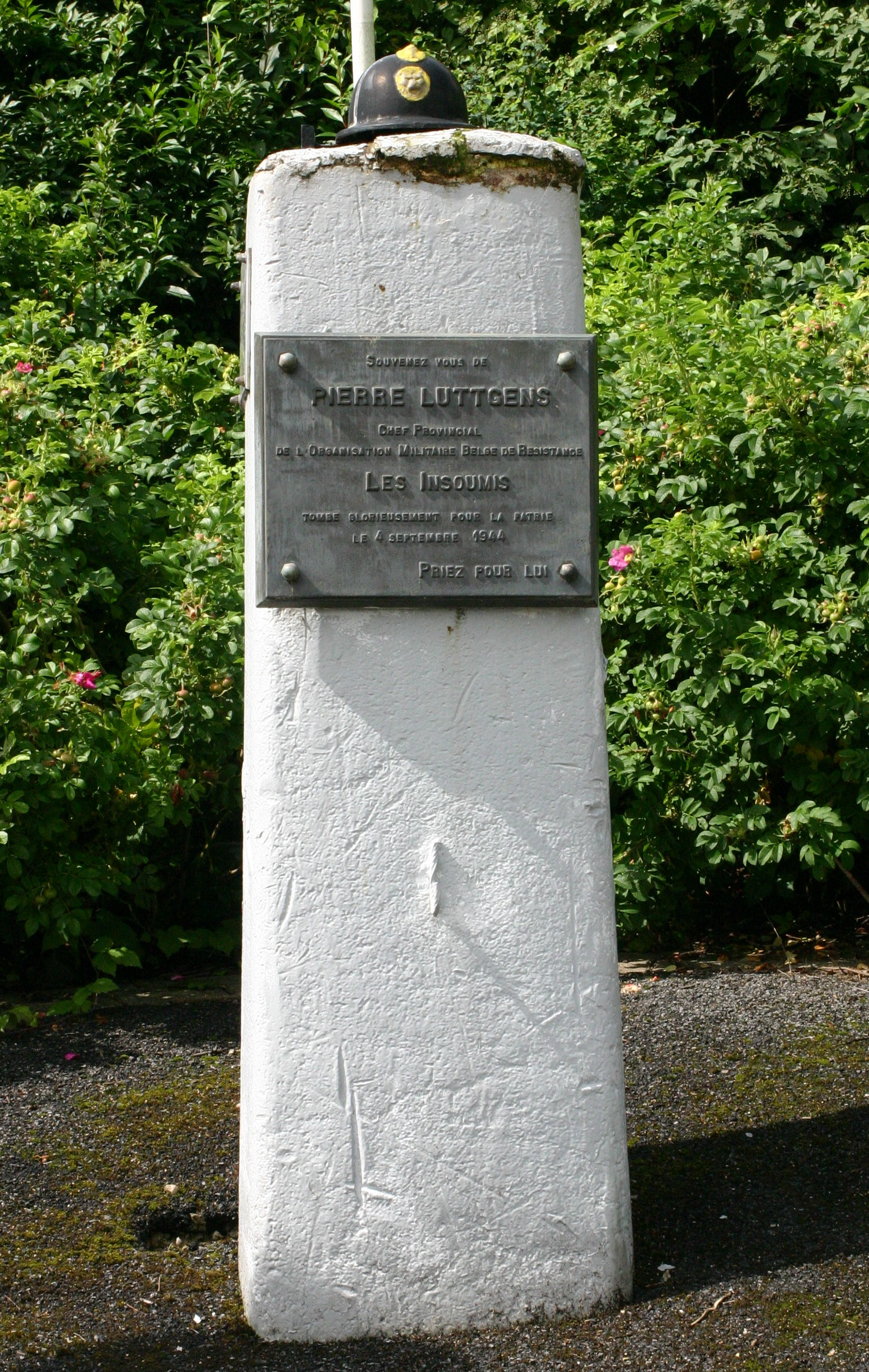 Monument in Athus, Belgium : Pierre Luttgens died on 4 September 1944.